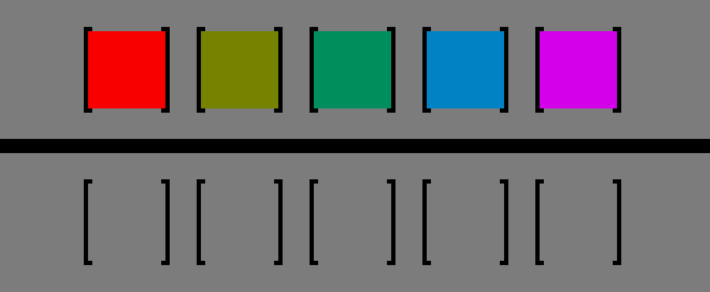 Each color on top has the same luminance level and yet they do not look the same. When the top image is converted to grayscale, we have the image on the bottom.